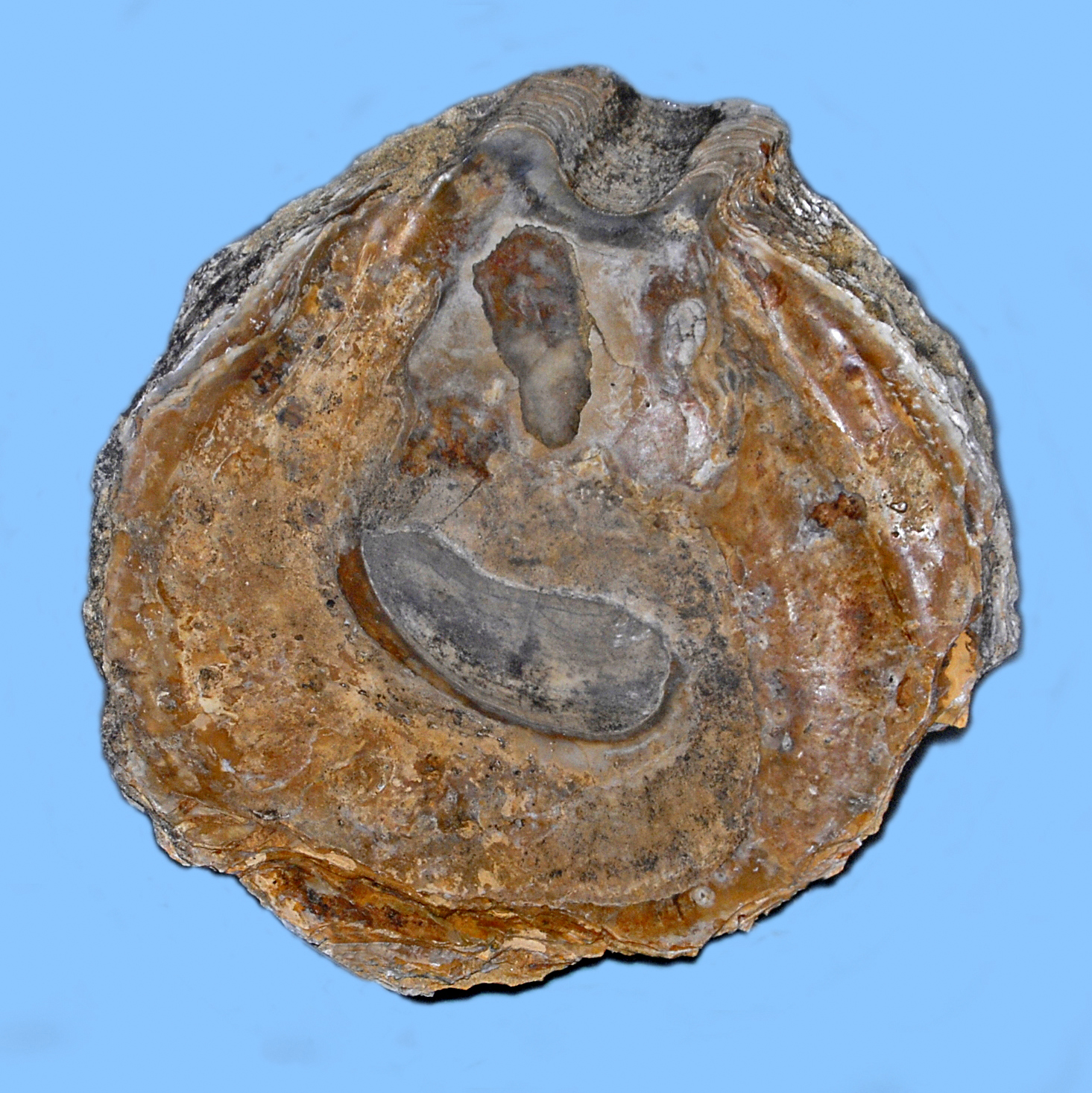 Fossil shell of Gigantostrea gigantica from Oligocene, on display at the Museo Paleontologico Giulio Maini, Ovada